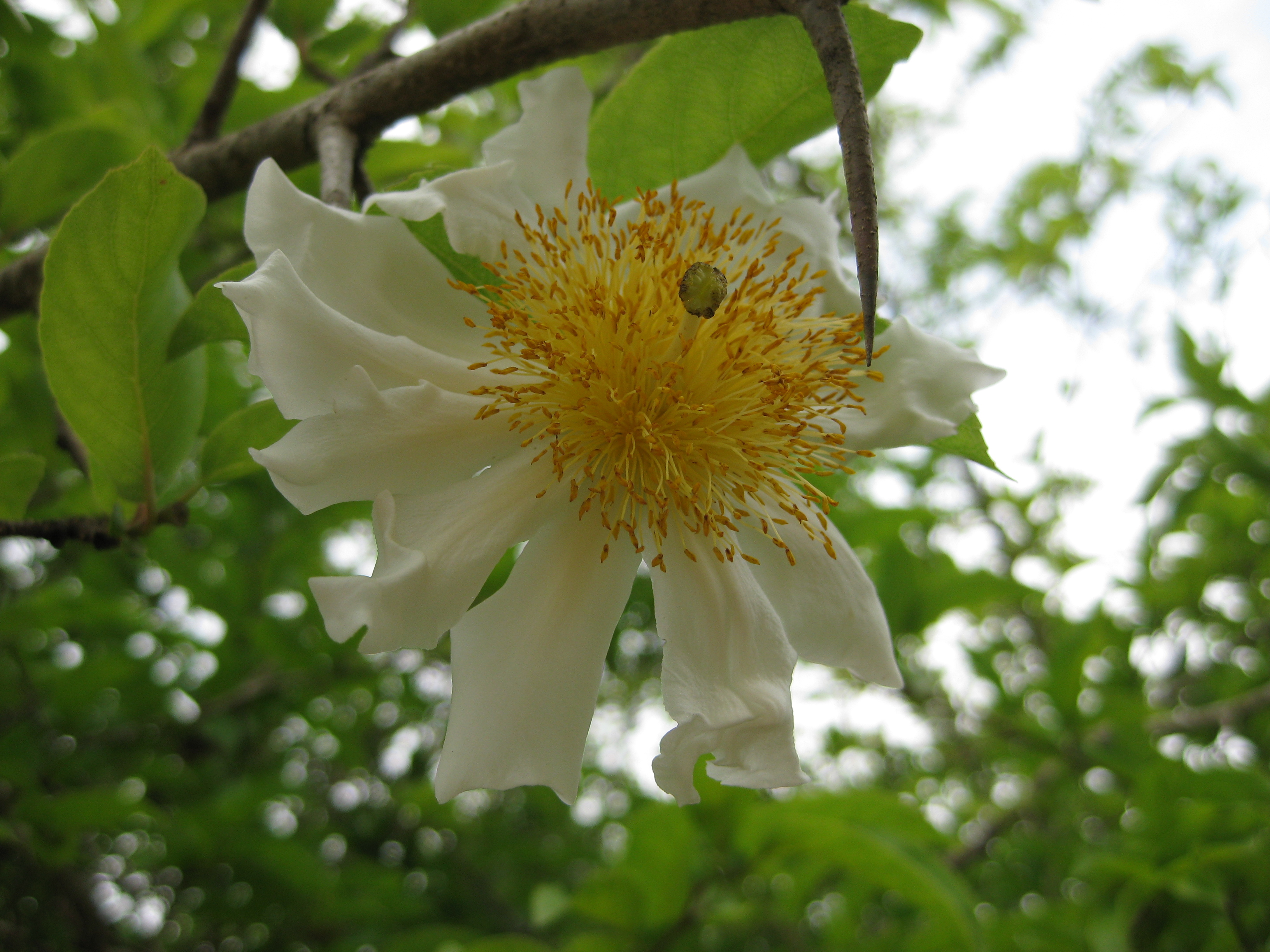 Growing next to the cottage in Crocodile Bridge camp